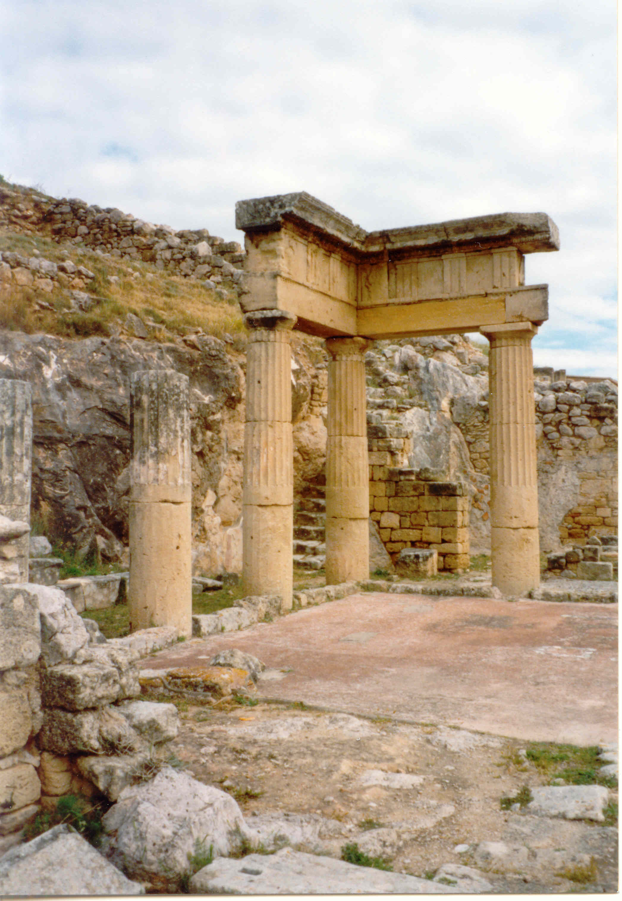 Atrium of a Roman house in Solunto, Sicily